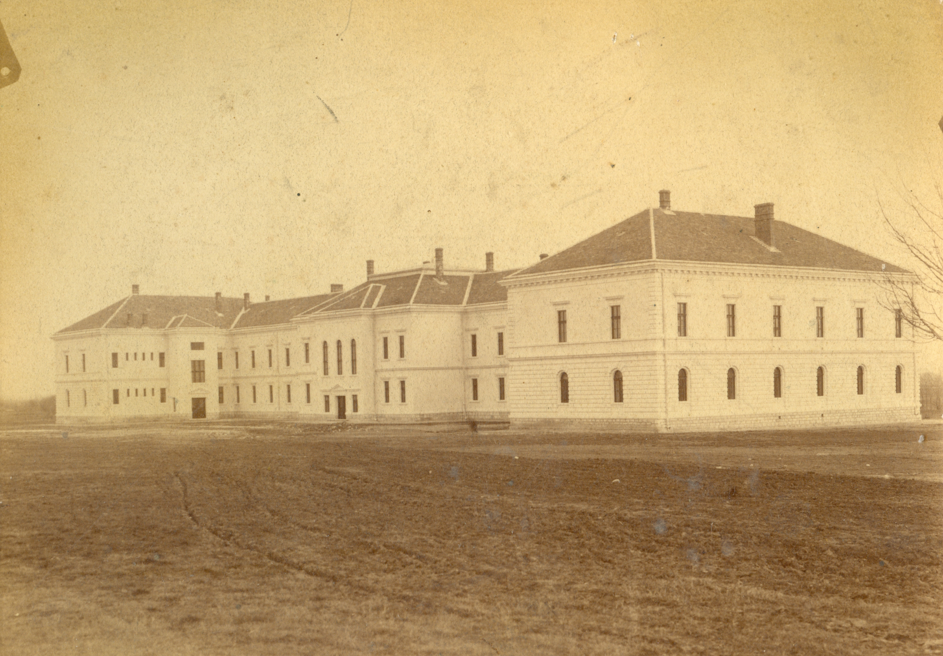 Negotin's barracks "Hajduk Veljko" Srpski (latinica): Negotinska kasarna "Hajduk Veljko"